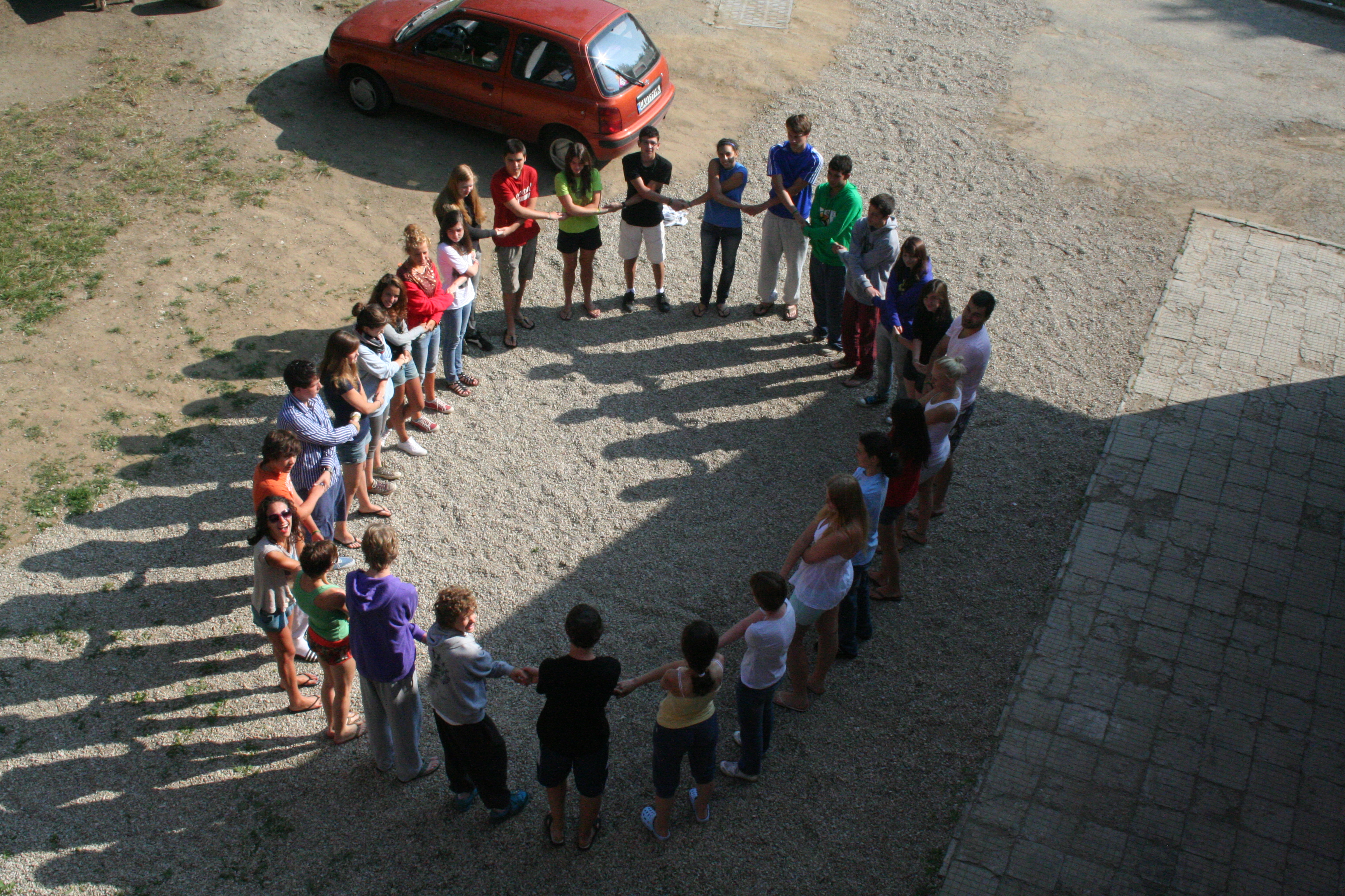 An example of CISV Youth Meeting program